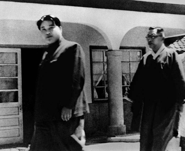 Kim Il-sung and Kim Gu